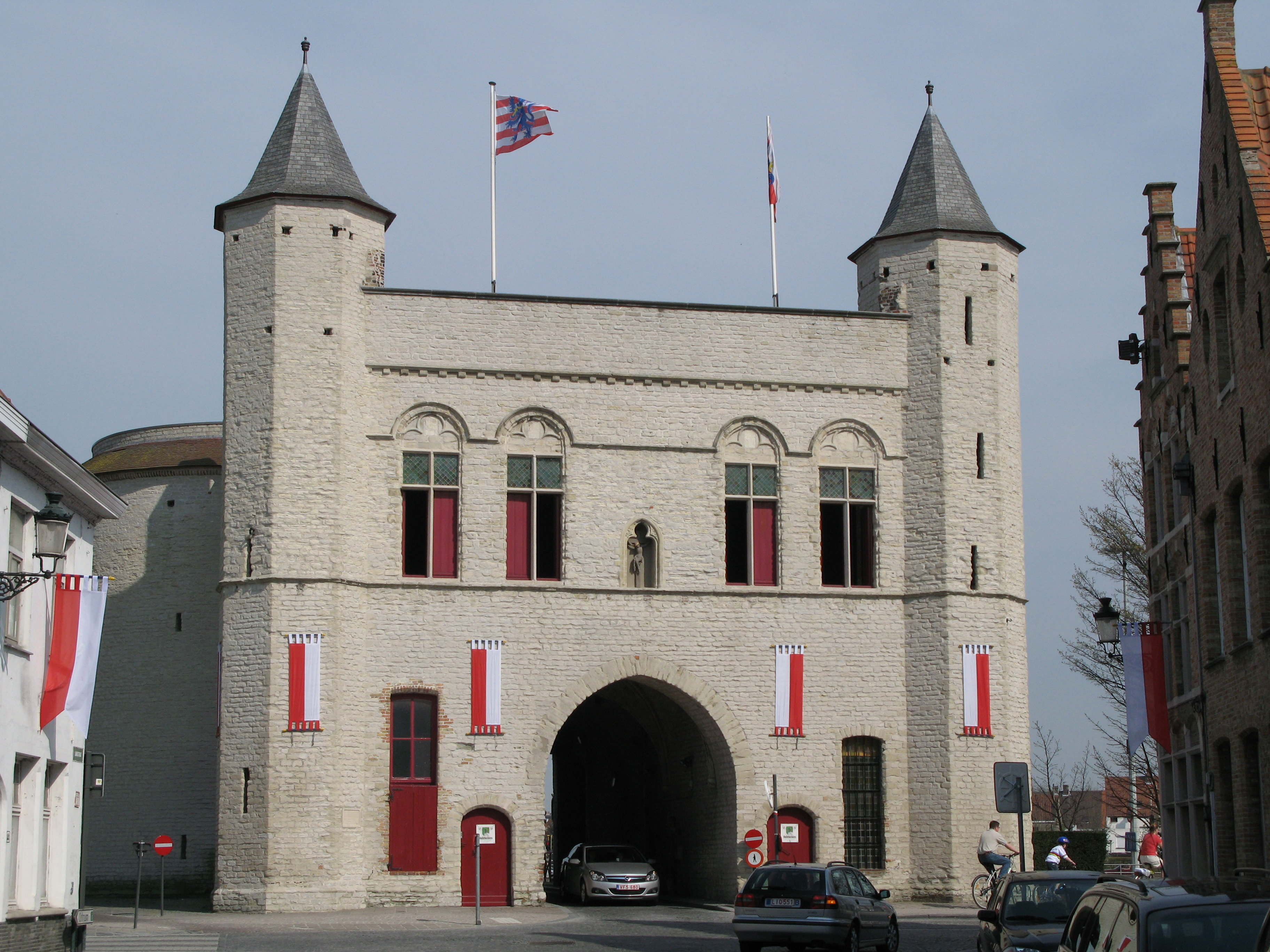 Kruispoort gate in Brugge, seen from inside the city centre. Brugge, West-Flanders, Belgium.